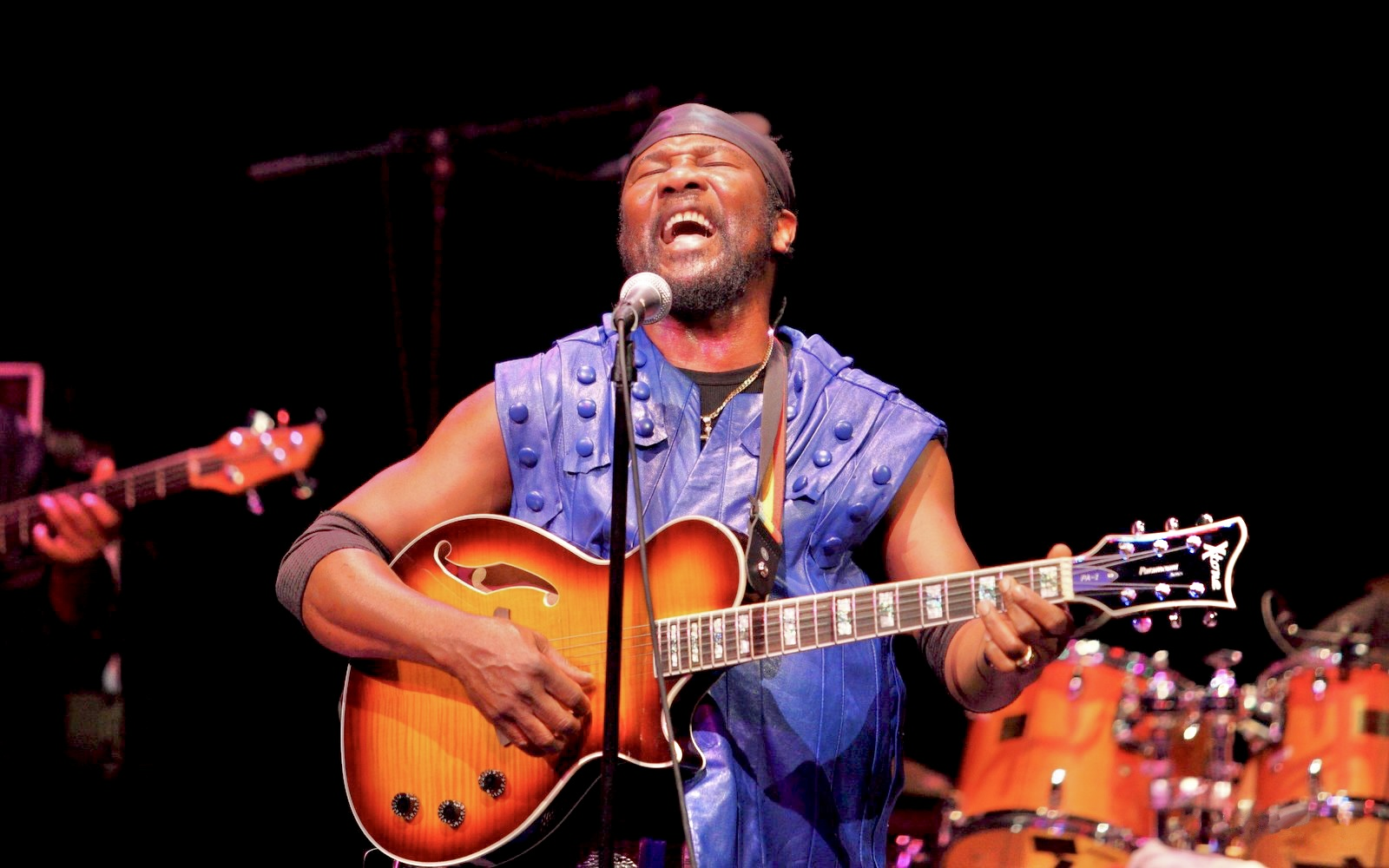 Toots Hibbert performing in Orlando, Florida - Toots and the Maytals in concert.